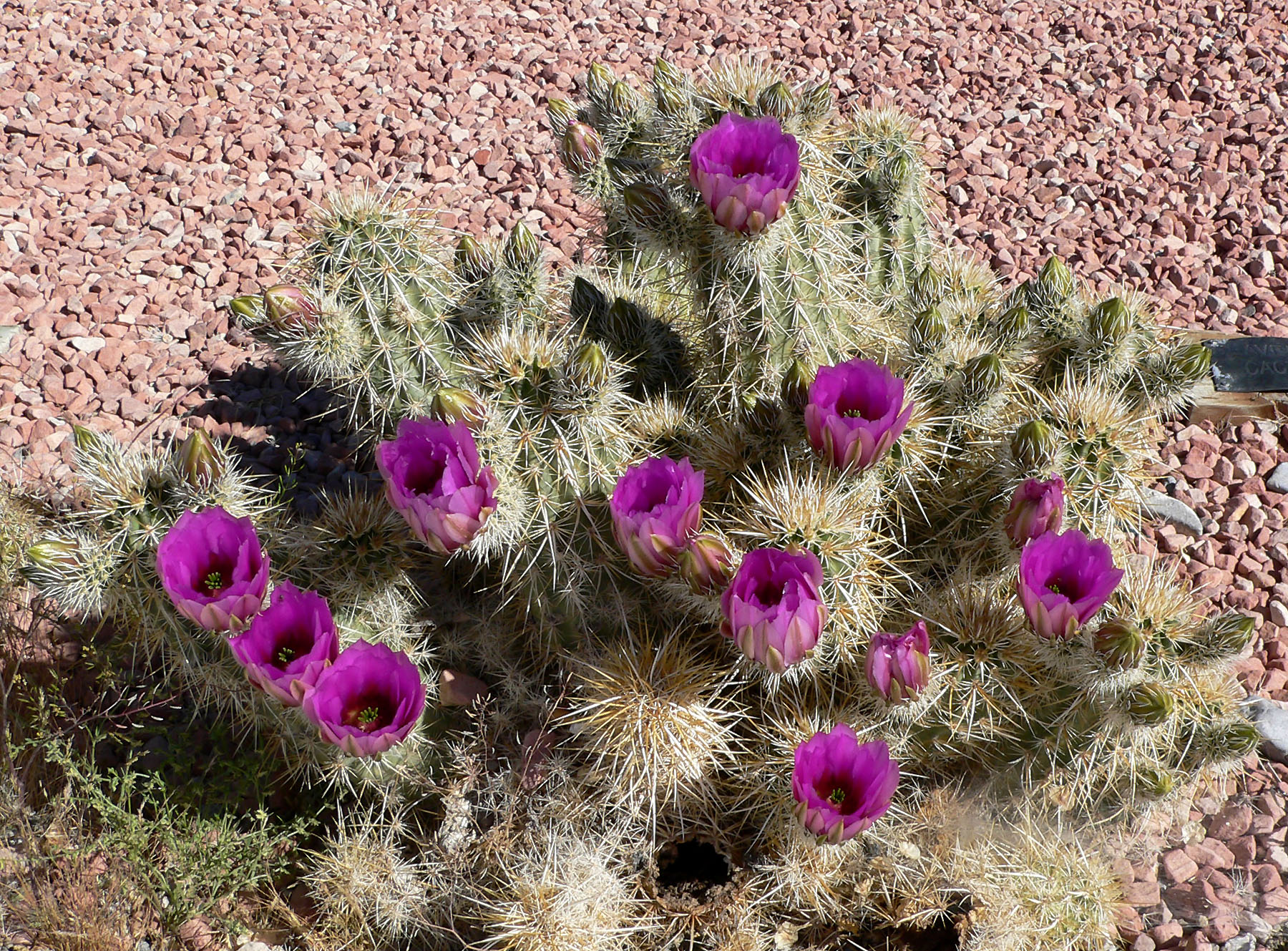 Photo of Echinocereus engelmannii near Corn Creek station in the Desert National Wildlife Range, north of Las Vegas, Nevada